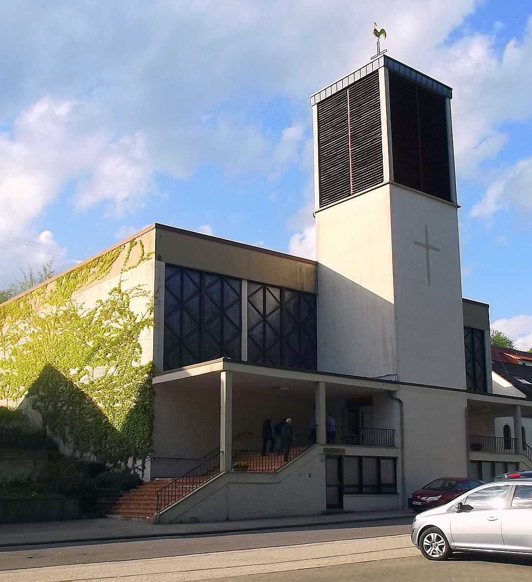 Exterior of the roman catholic church in Eiweiler near Nohfelden, Saarland, Germany